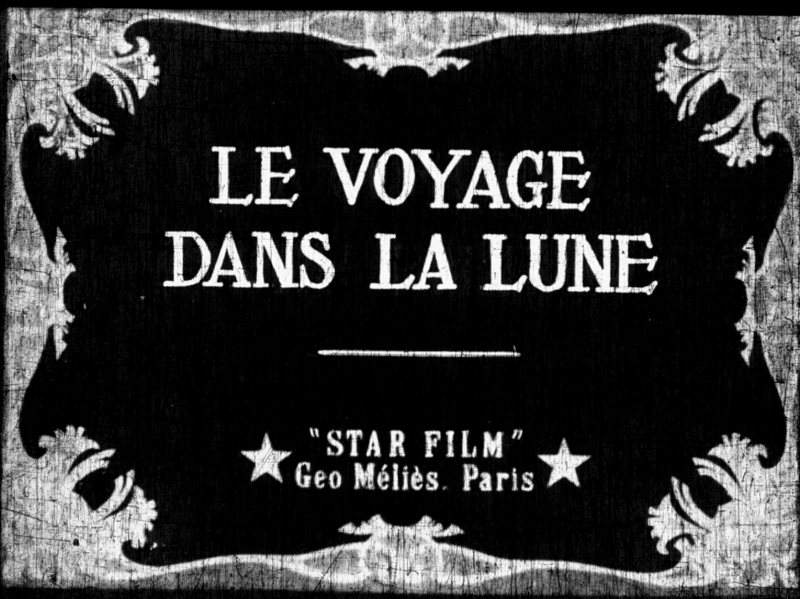 Opening title card for the 1902 Georges Méliès film Le voyage dans la lune.